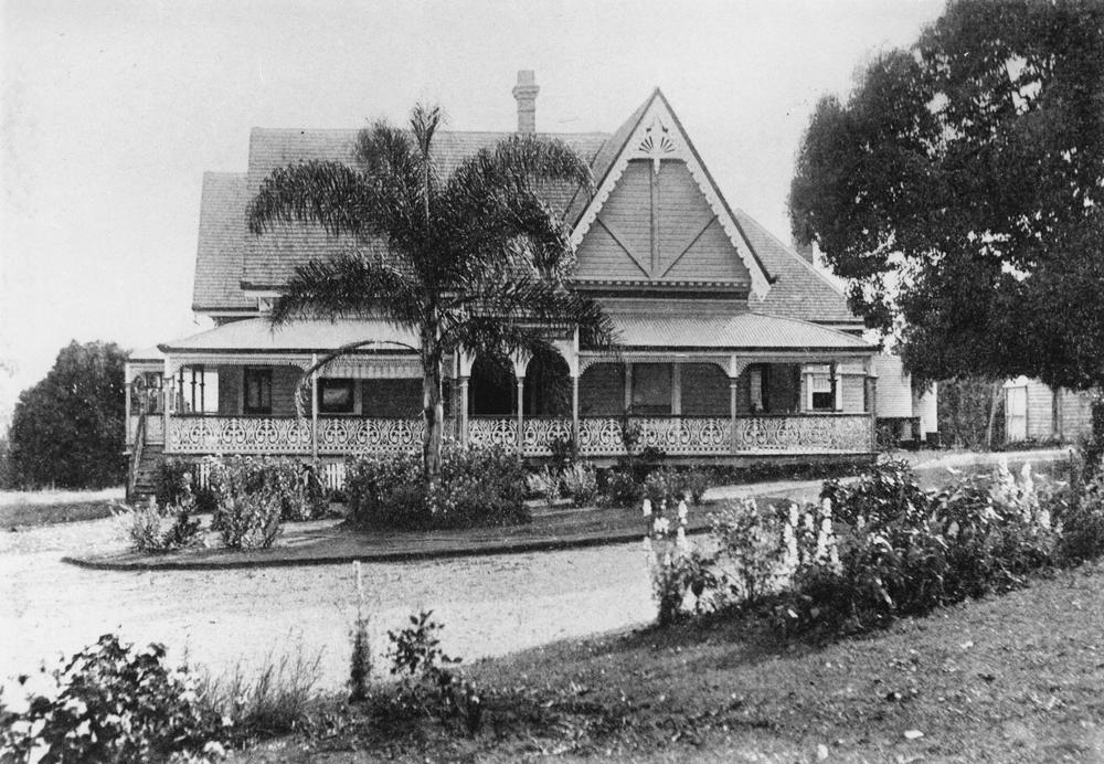 Como (later Barrogill), residence of James Walter Hayne in Yeronga Brisbane, cira 1921